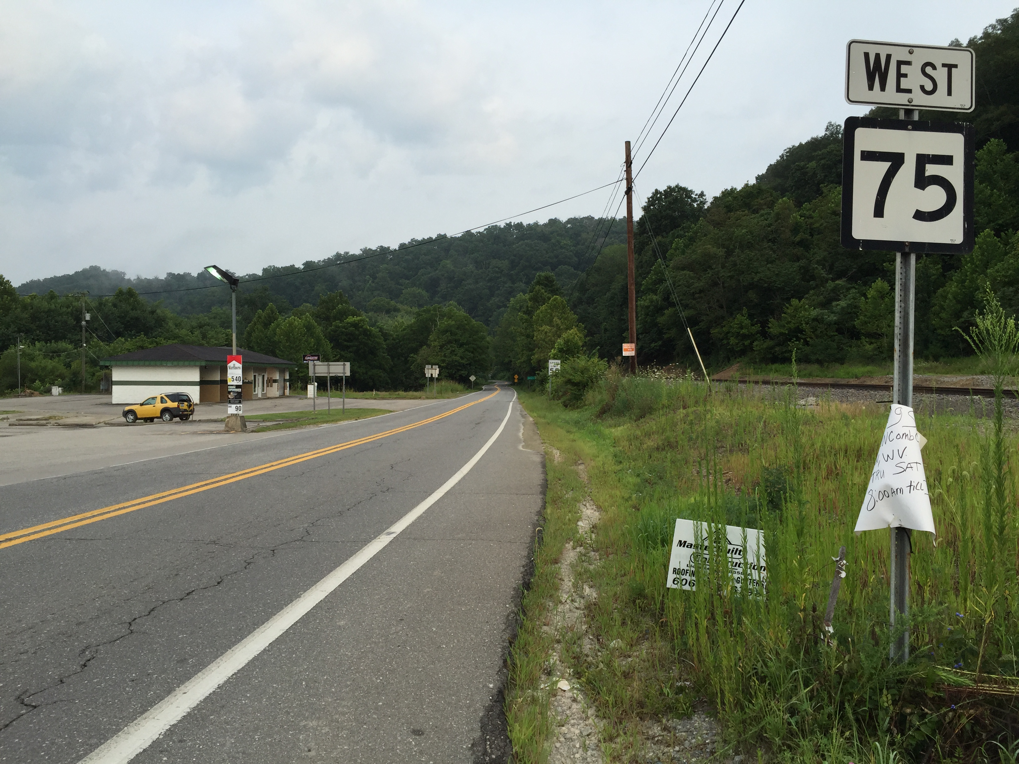 View west along West Virginia State Route 75 at West Virginia State Route 152 (Fifth Street Road) just north of Lavalette in Wayne County, West Virginia